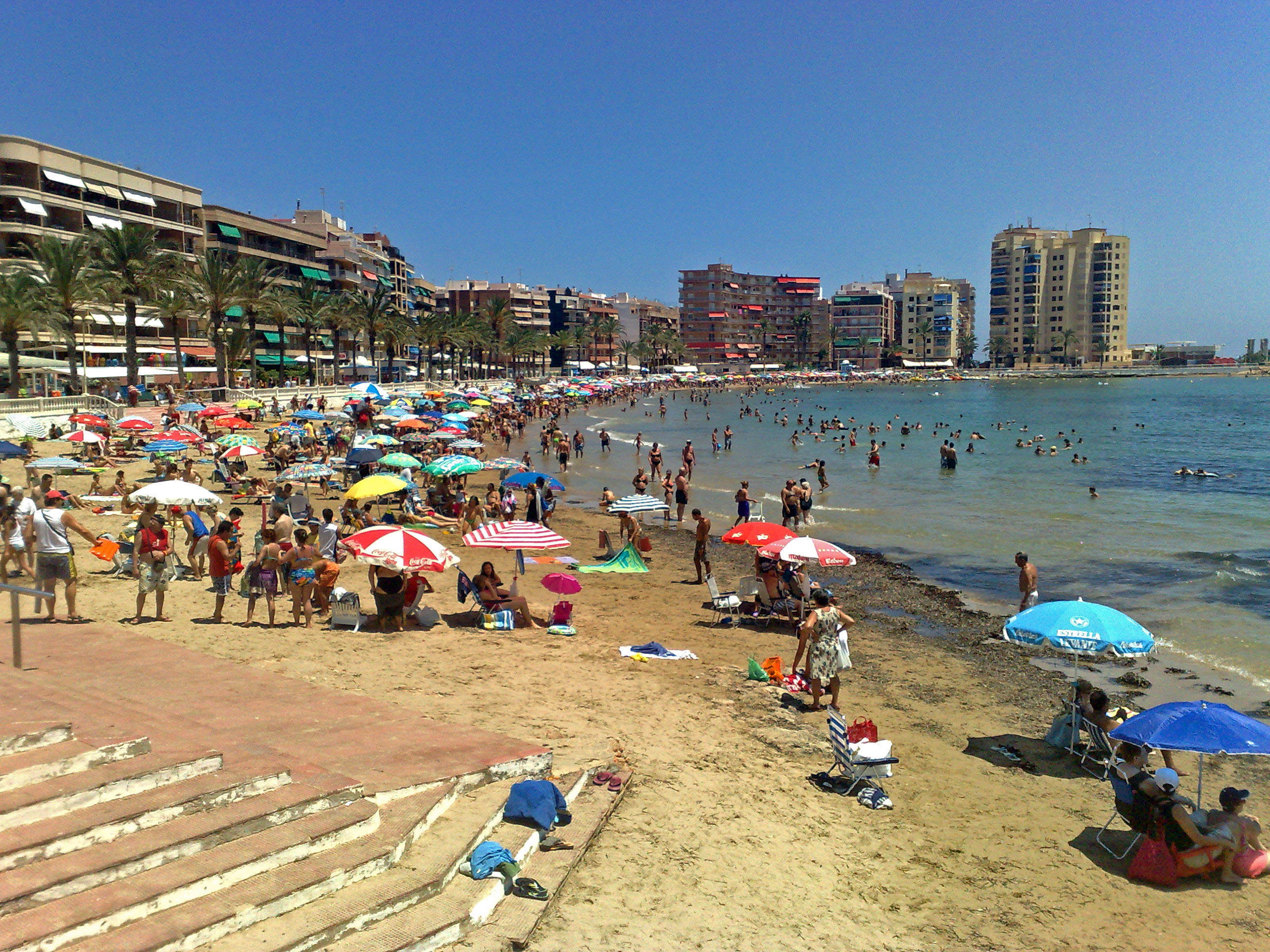 Picture from the beach in Torrevieja, Spain.